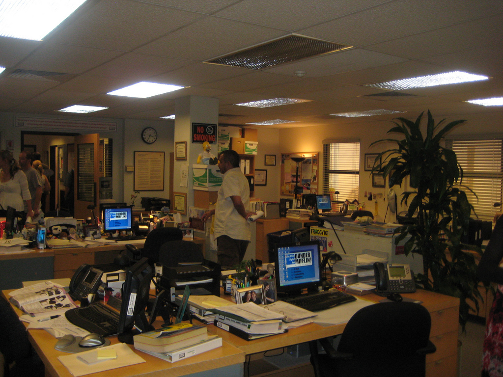 The Office set visit - Los Angeles, Calif. - Aug. 7, 2009